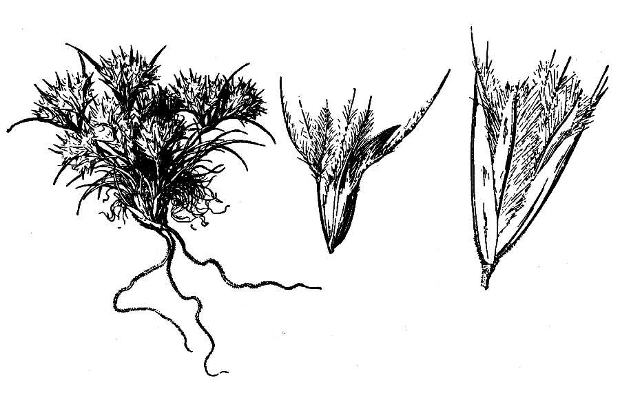 Blepharidachne kingii from Hitchcock, A.S. (rev. A. Chase). 1950. Manual of the grasses of the United States. USDA Miscellaneous Publication No. 200. Washington, DC.